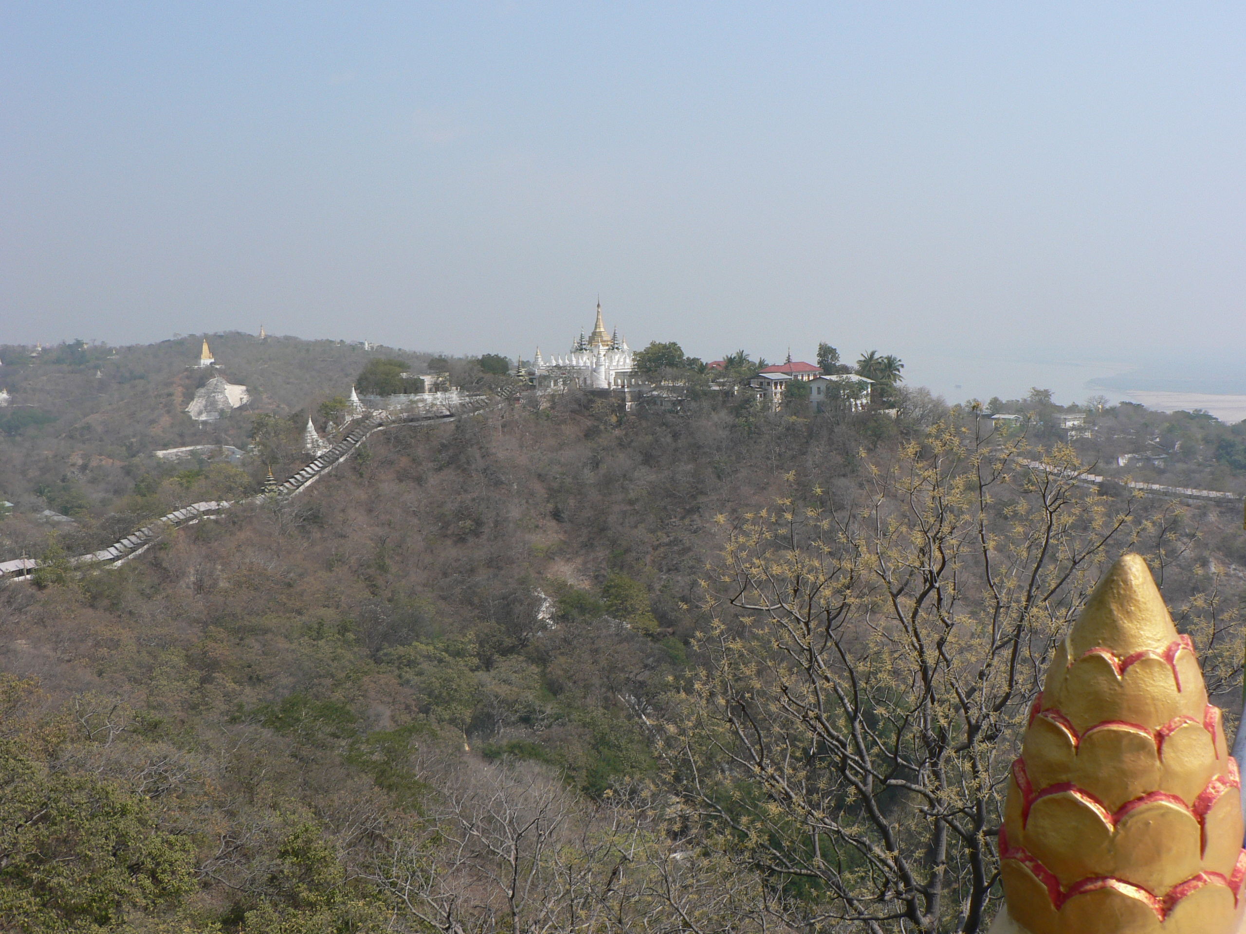 Sagaing Hill, Myammar